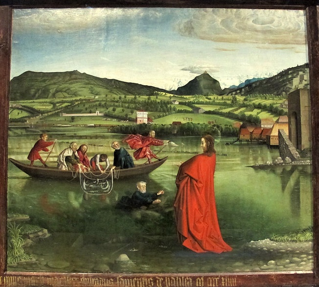 Miraculous catch of fishlabel QS:Lit,"pesca miracolosa" label QS:Len,"Miraculous catch of fish"